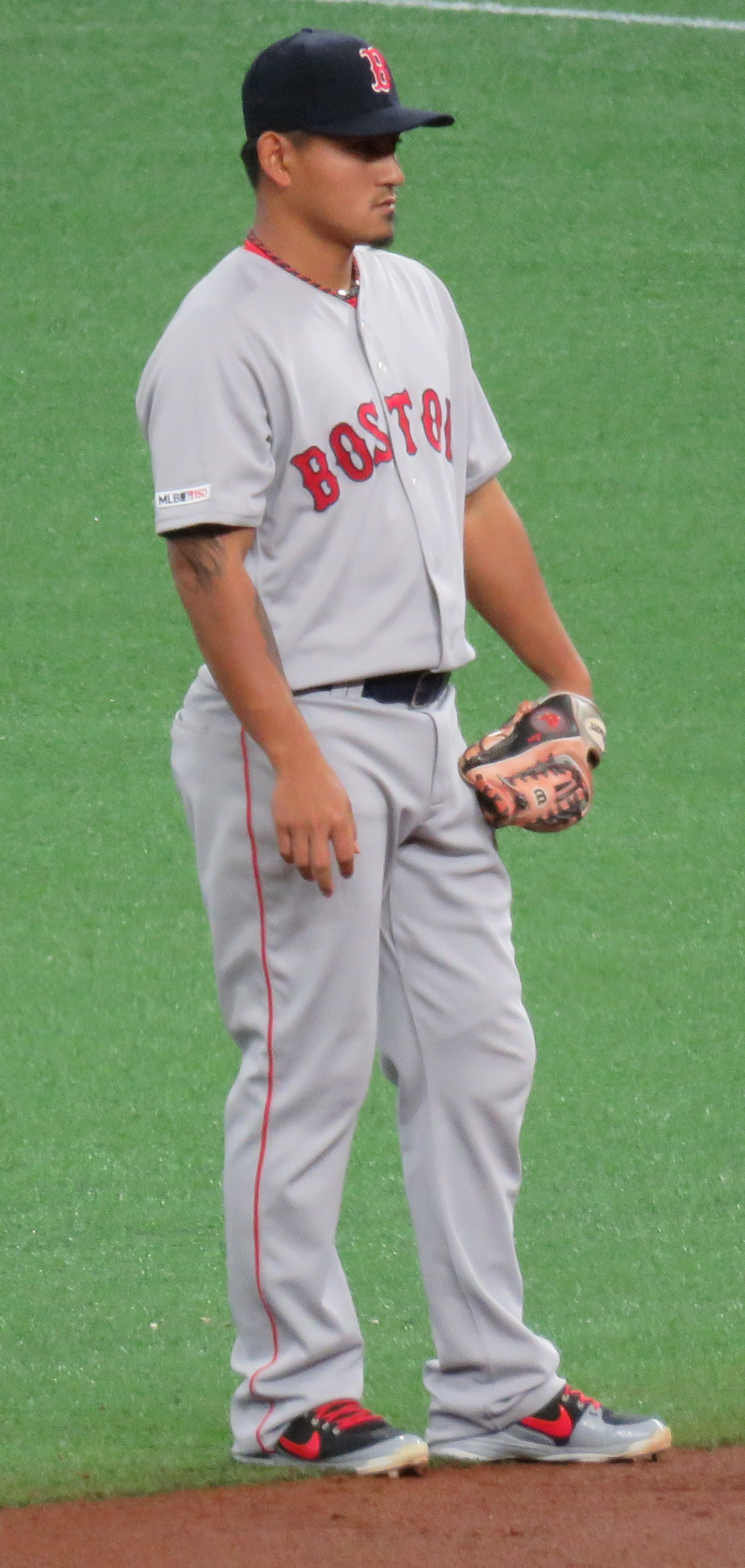 Tzu-Wei Lin playing for the Boston Red Sox in 2019